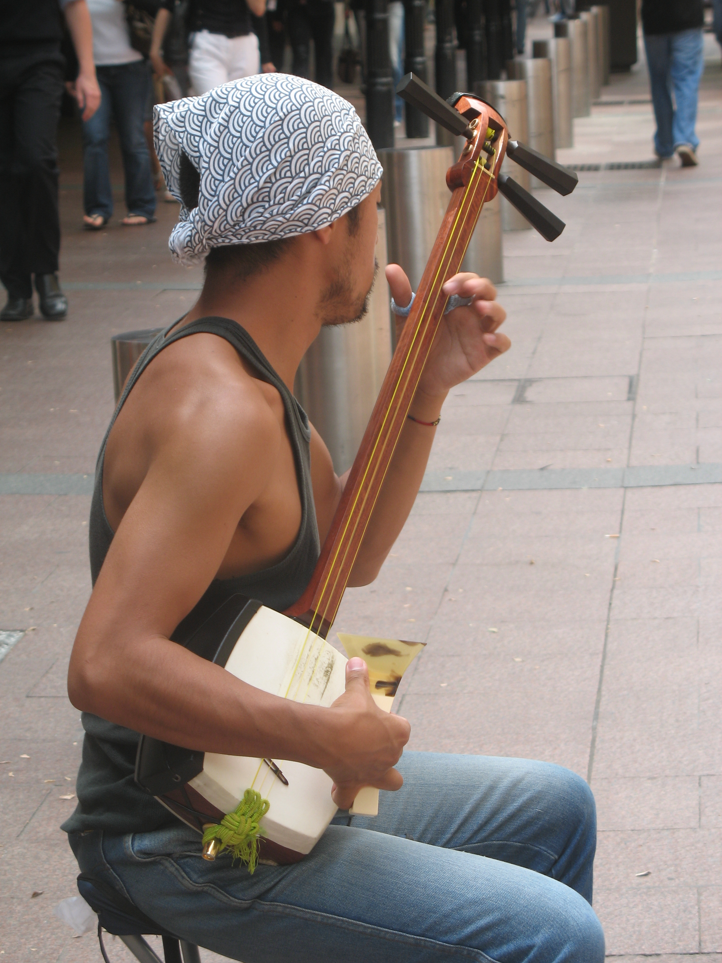 A busker playing a shamisen at a pedestrian mall on Pitt Street, Sydney, Australia, photographed by DO'Neil.